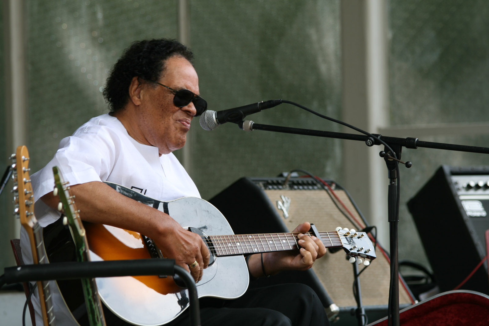 Louisiana Red in Düsseldorf, Germany